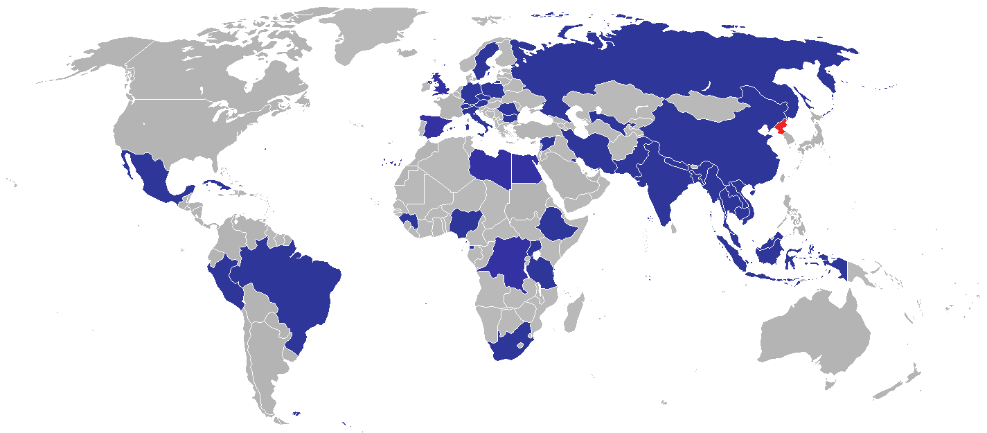 Based on File:Diplomatic missions of DPR Korea.PNG